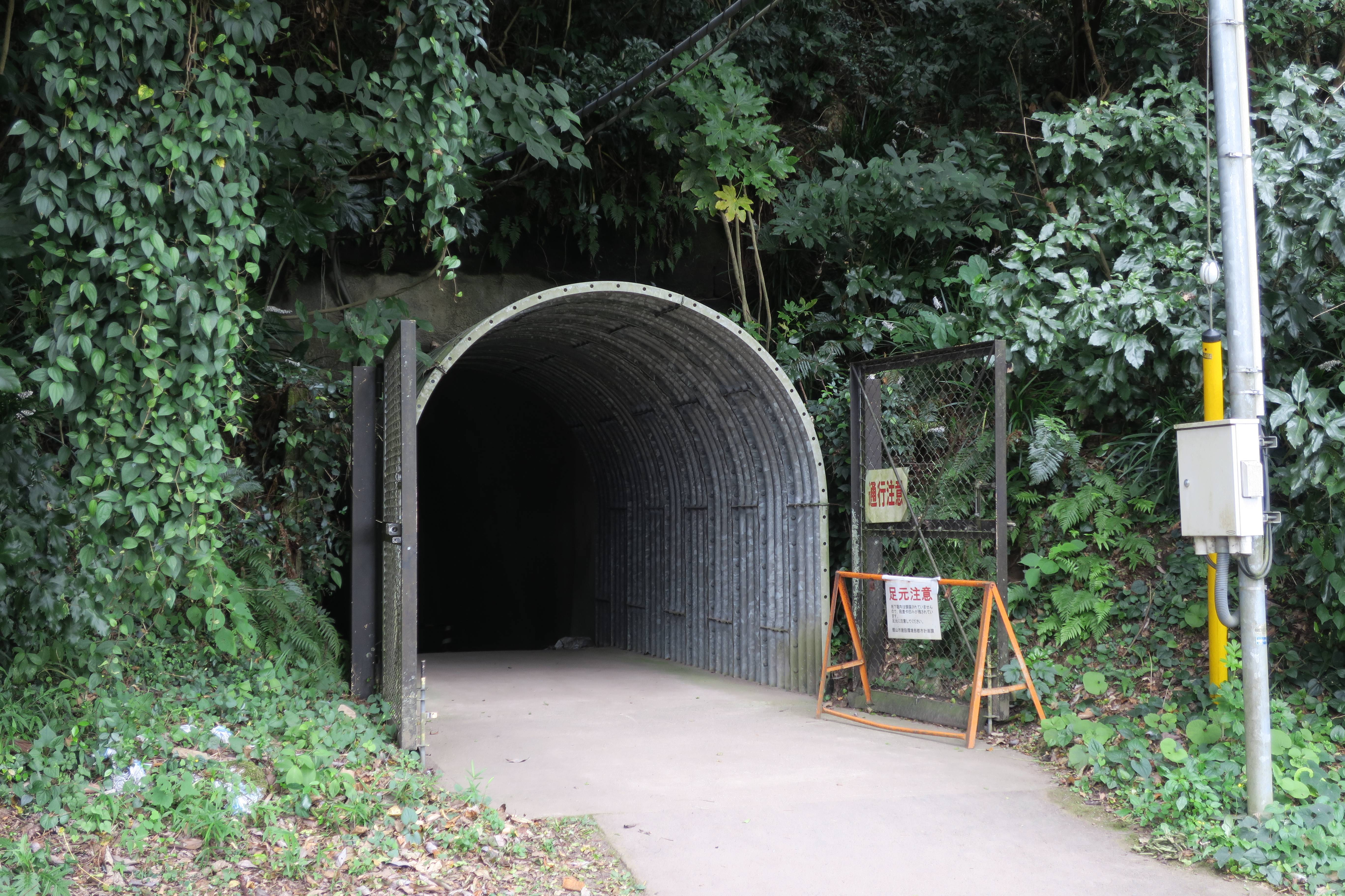 Akayama Underground Tunnels (Tateyama, Chiba).